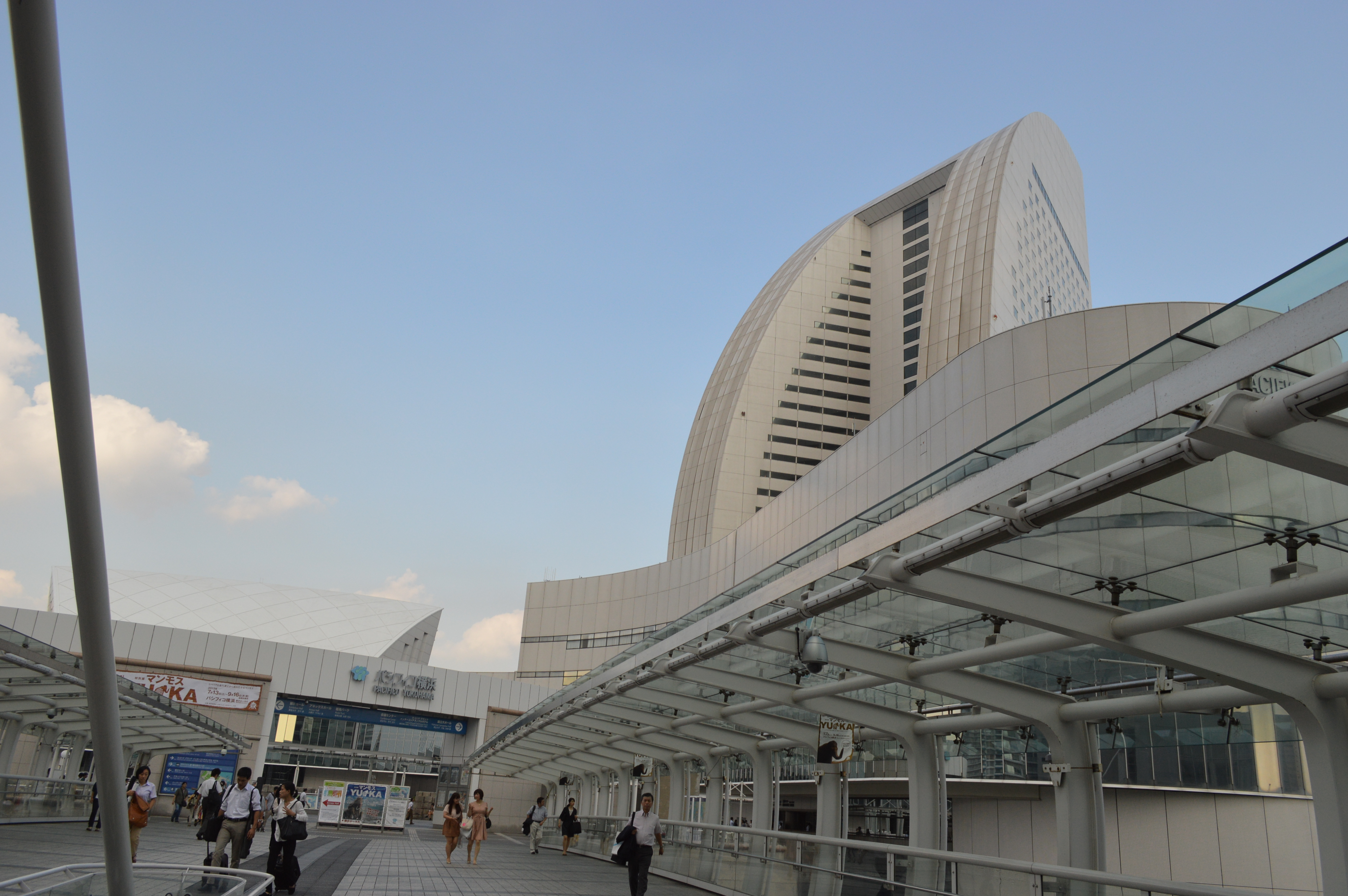 Bridge connecting Queen's Square Yokohama and Pacifico Yokohama (facing Pacifico). Zoom in and you will see a panel directing you to the Frozen Mammoth Yuka Exhibit, which was set up on the 1st floor of Pacifico.